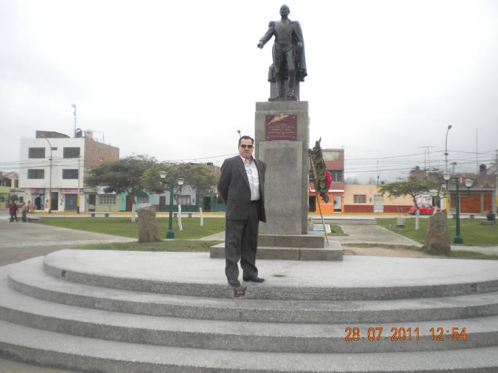 plaza de armas